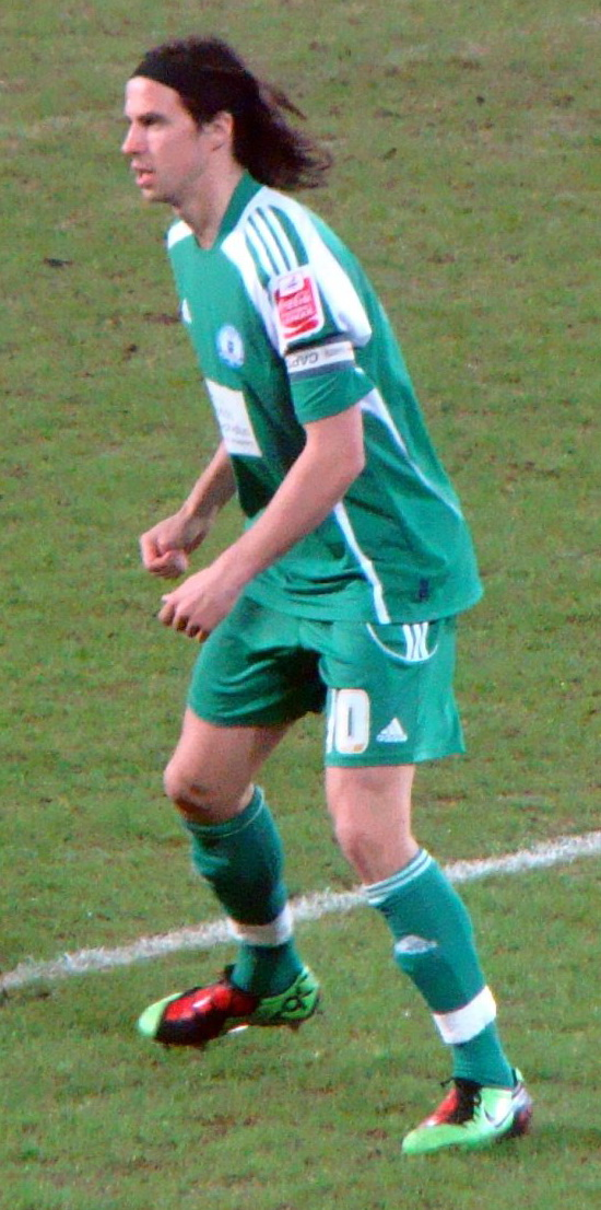 George Boyd